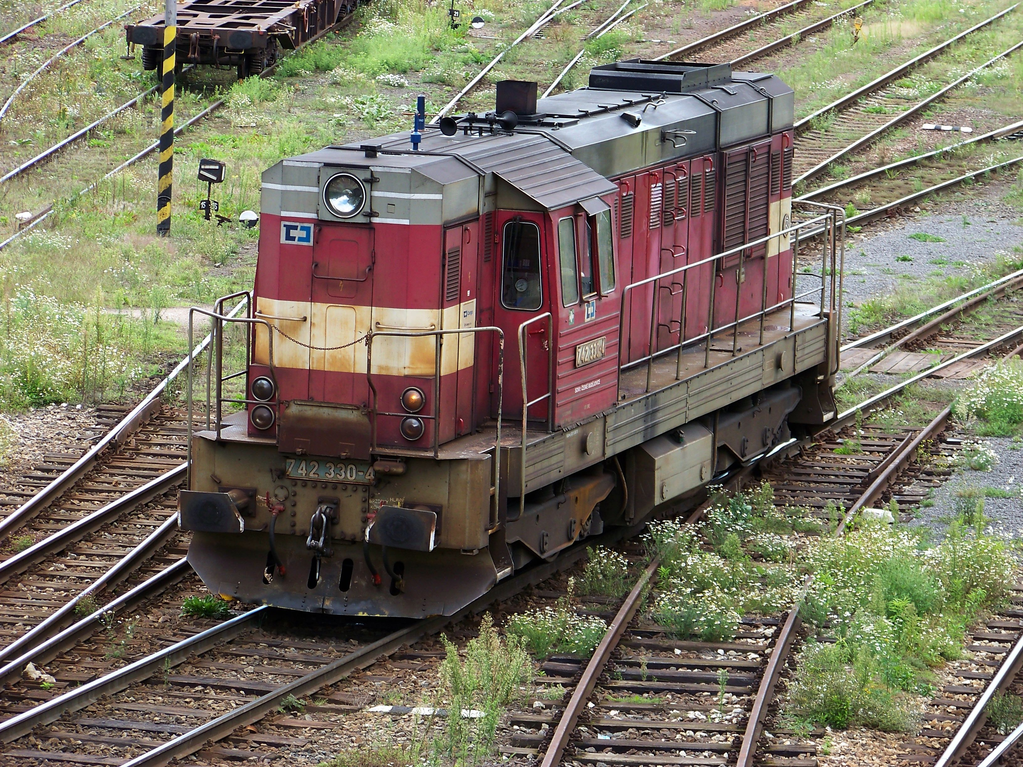 Prague 3-Žižkov, the Czech Republic. U nákladového nádraží, a freight railway station.